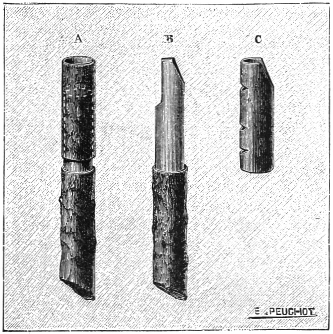 Wooden whistle